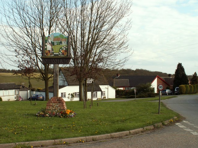 Village sign, Stanstead, Suffolk. Made by popular local wood carver Paul Woricker.